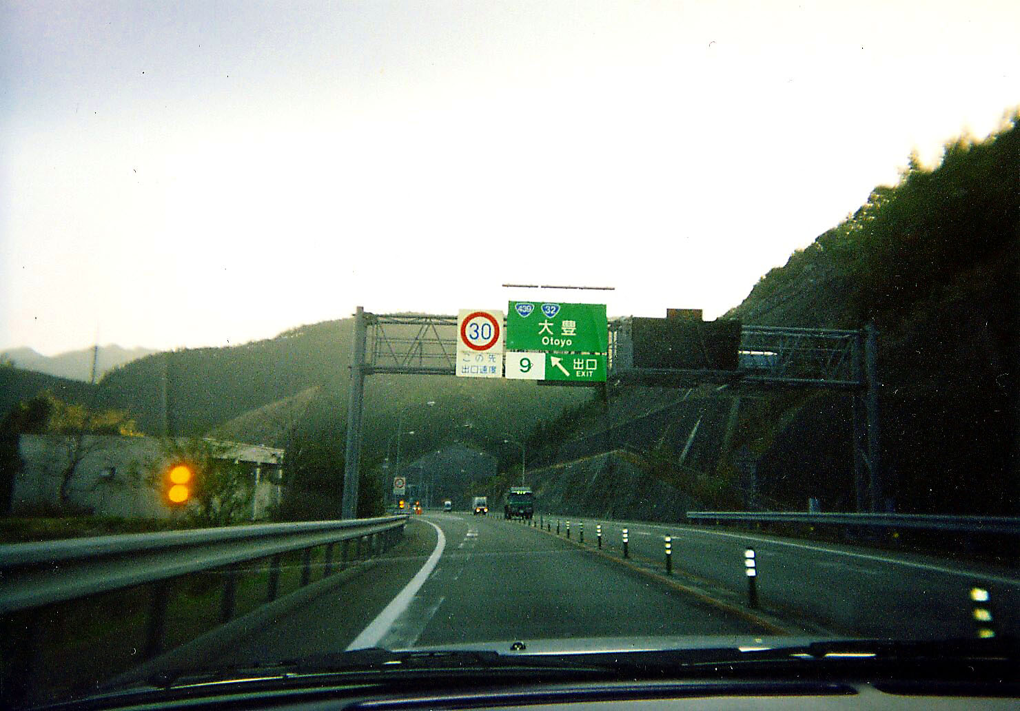 Kochi Expressway Otoyo Interchange （for Takamatsu） 高知自動車道大豊インターチェンジ（高松方面へ）